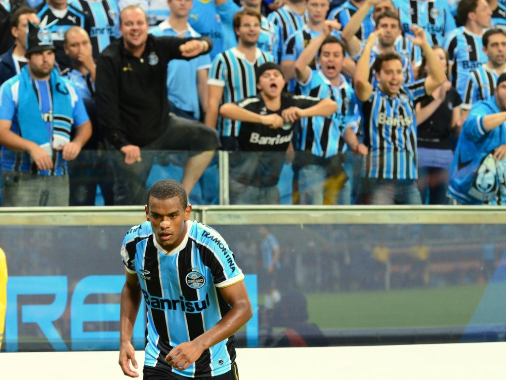 Fernando Lucas Martins